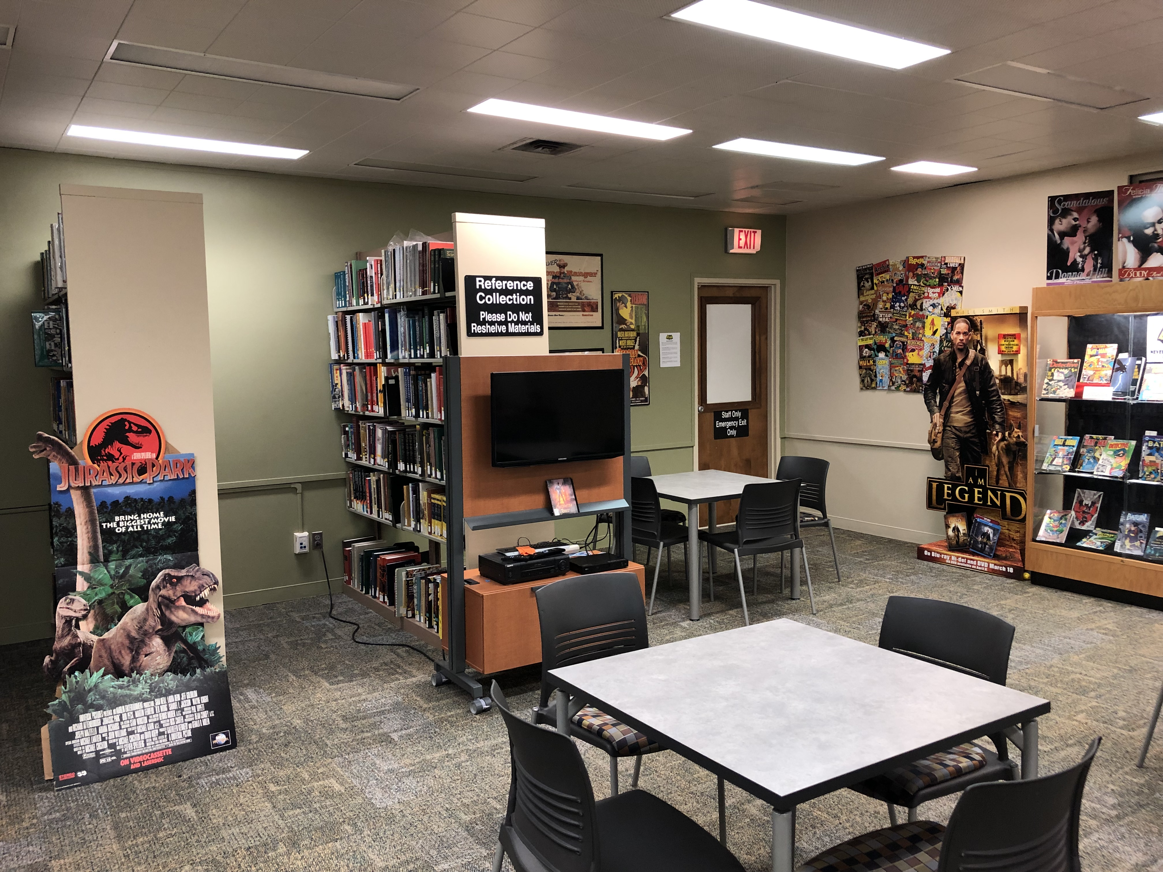 Some bookshelves and pop culture items on the 4th floor of the Jerome Library.